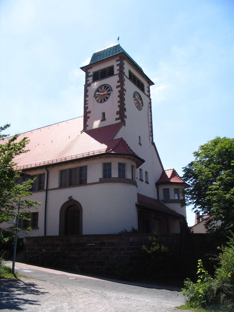 Martinskirche (“Church of Martin”) in Straubenhardt, Germany